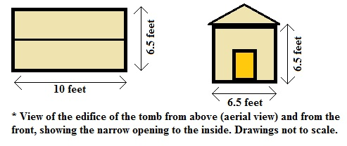 This is the picture of the edifice from the top (superior or aerial view) and also the view of the edifice in the front, with the narrow opening depicted. Dimensions are accurate as per literature and not measured by the author of this photo. The pictures are not to scale.